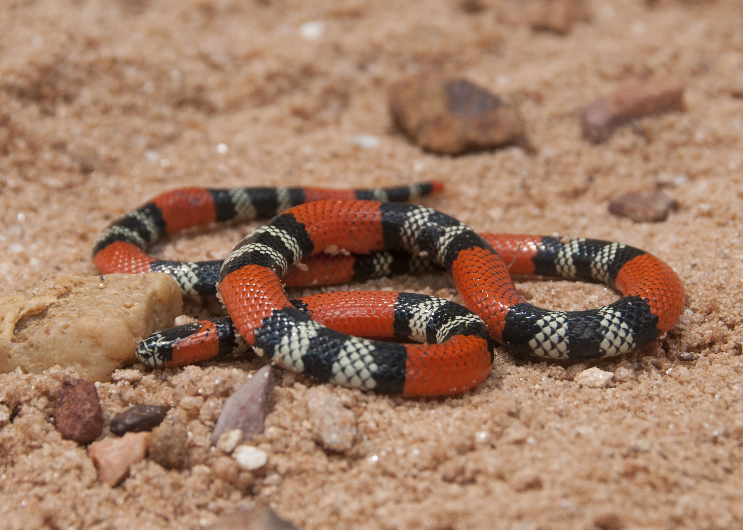 Cerrado Coral Snake (Micrurus frontalis) in Brasilia, DF, Brazil.